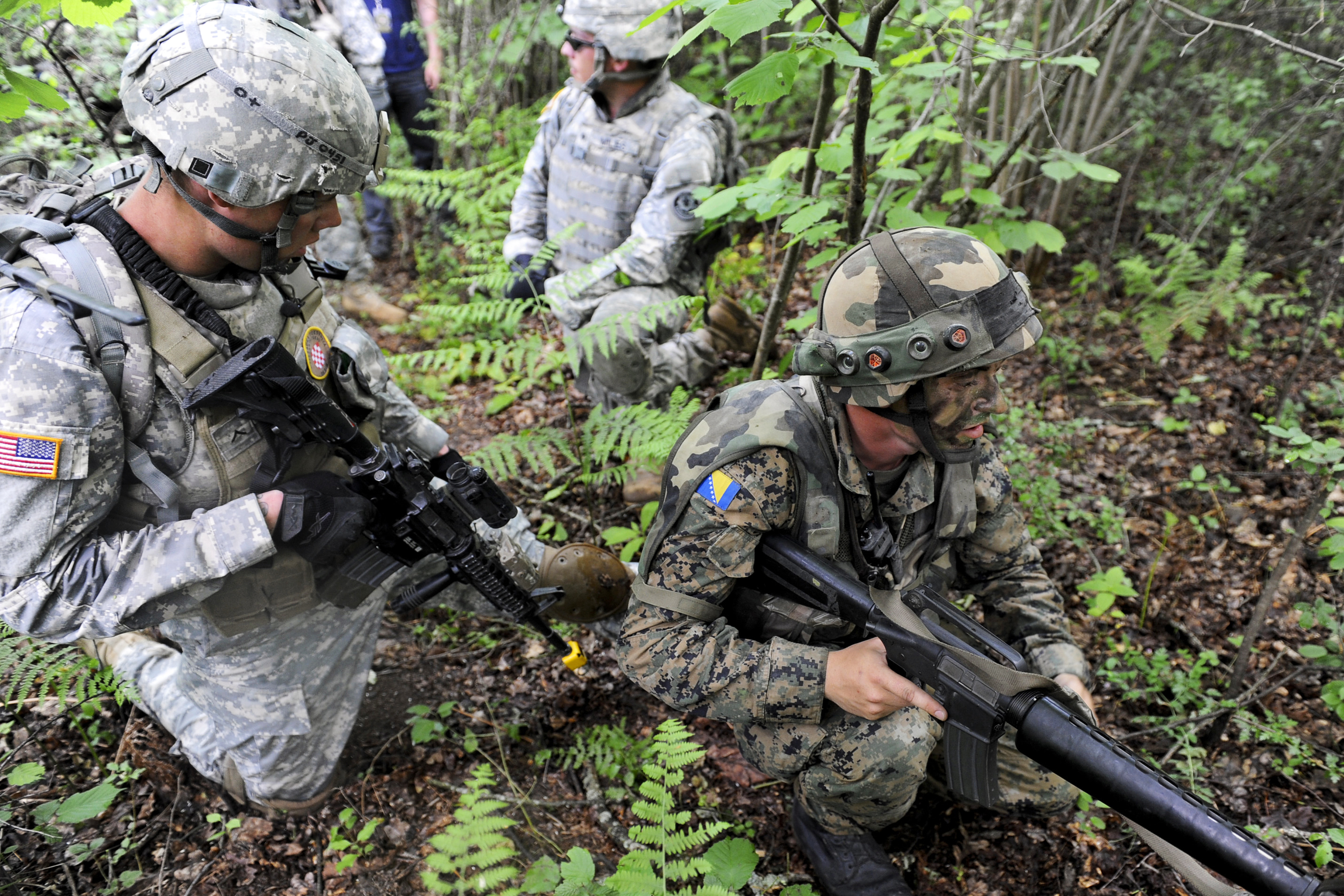 U.S. Army Pvt. Jacob Pharr and a Bosnian-Herzegovinian soldier pull security while conducting a situational training ambush as part of the Immediate Response 2012 training exercise in Slunj, Croatia, June 1, 2012. Pharr, a radio operator, is assigned to the 1st Squadron, 2nd Cavalry Regiment. U.S. Army Europe photo by Staff Sgt. Joel Salgado